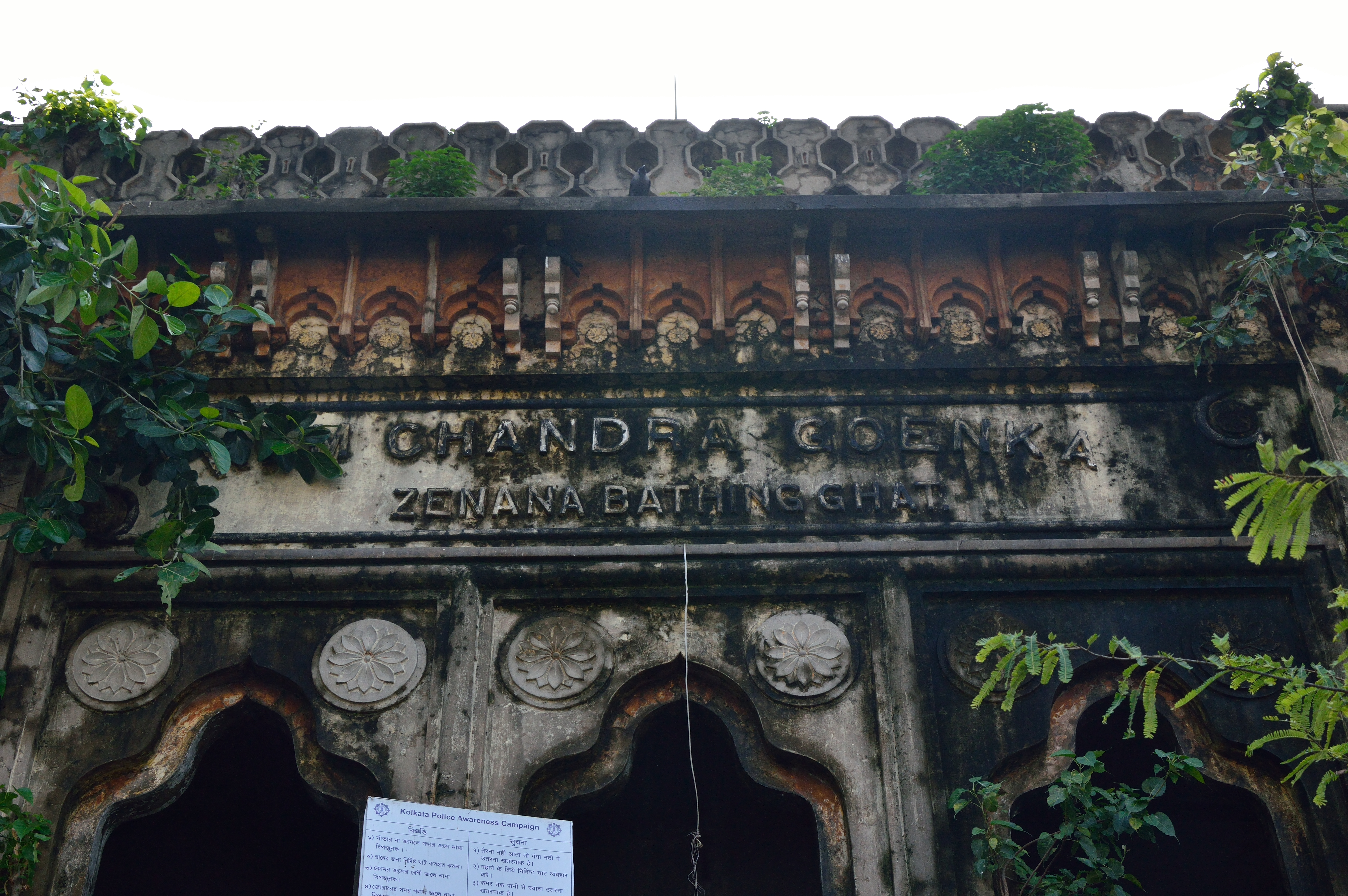 Photographed in Kolkata on 'Mahalaya' day, India.